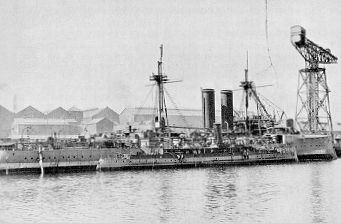 HMCS Canada (front) alongside with British cruiser HMS Sentinel (back)